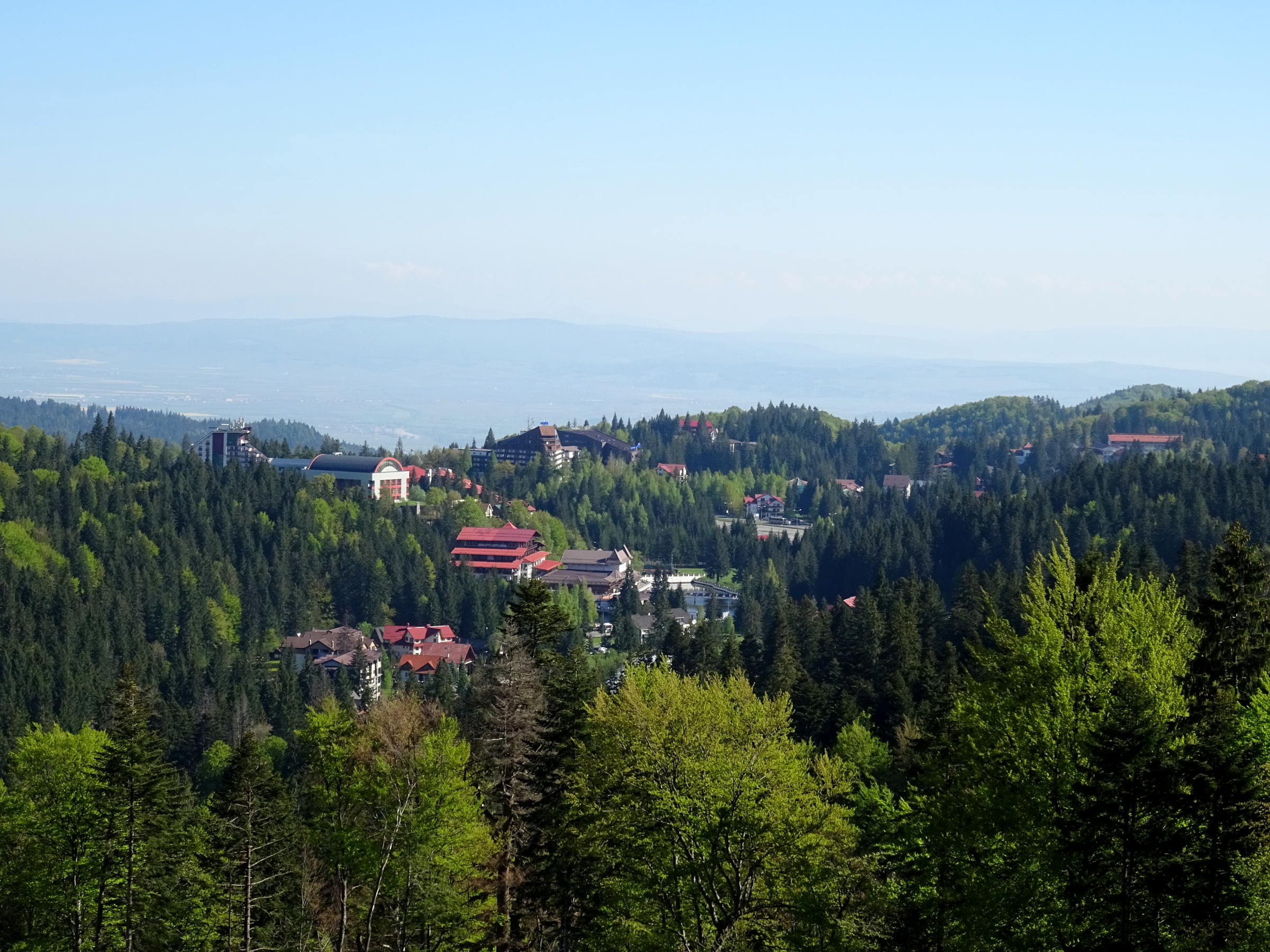 View over Poiana Brasov resort, Romania